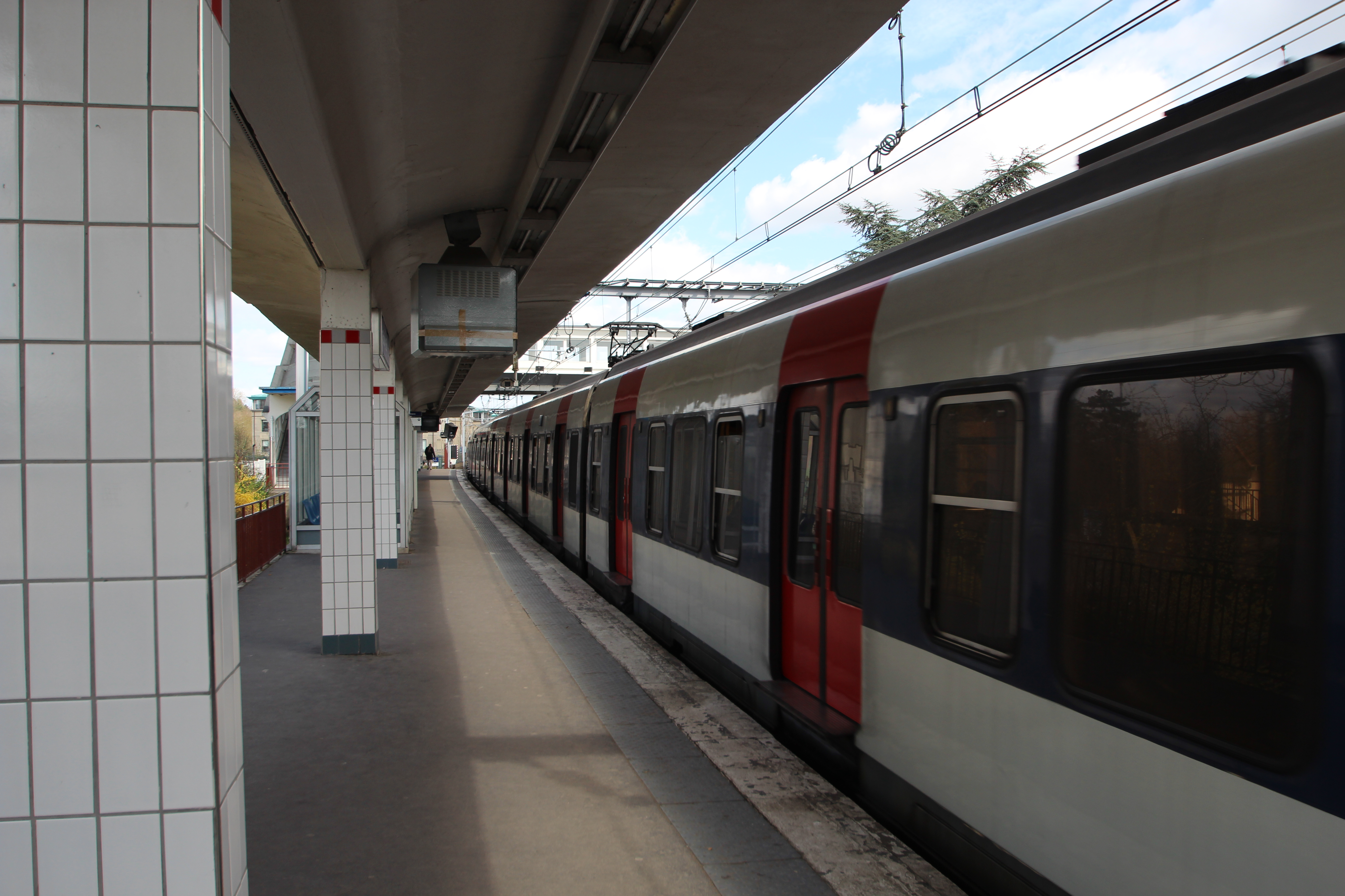 La Croix de Berny train station in Antony, France.